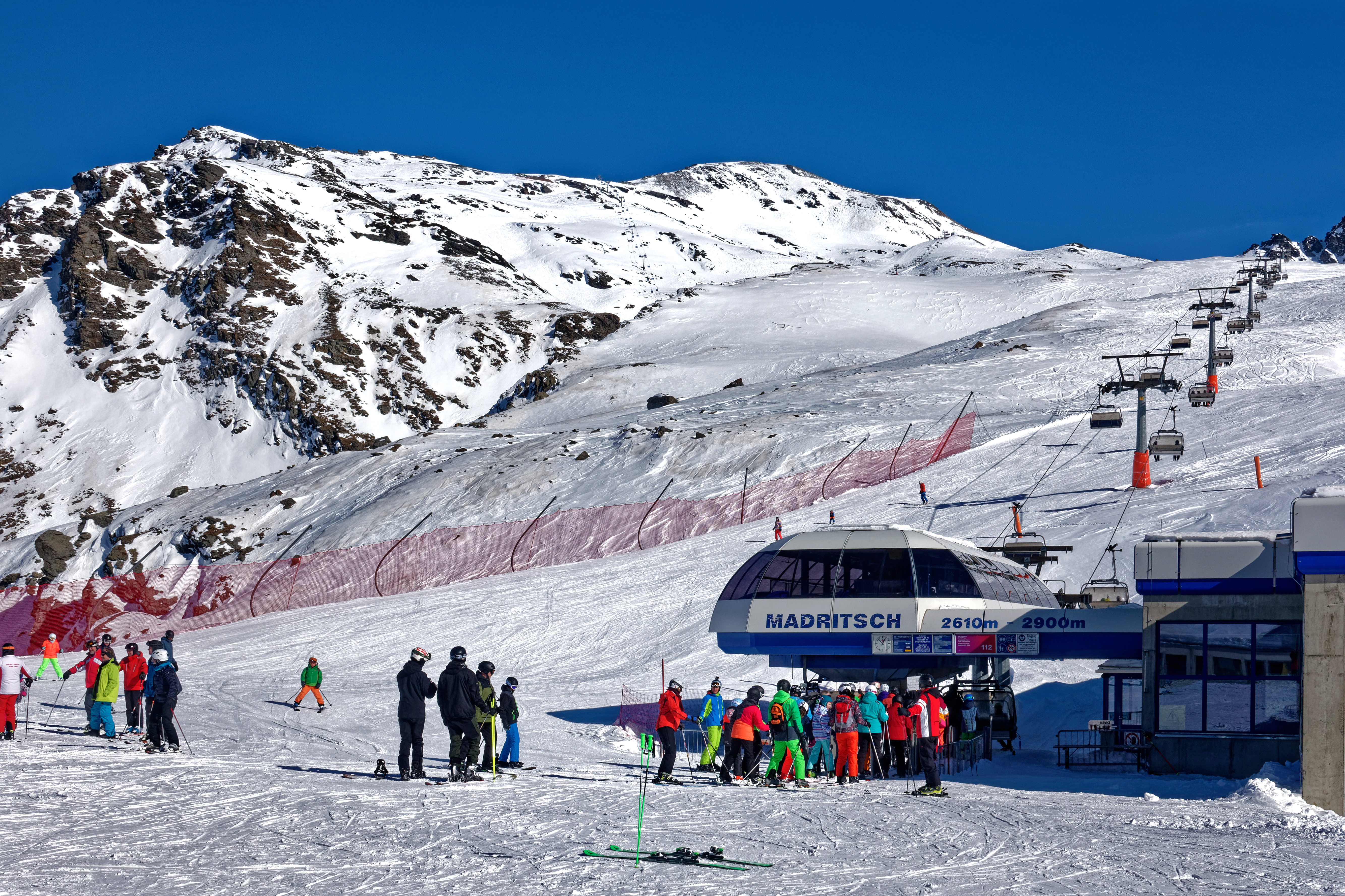 The Sulden Ski Area.